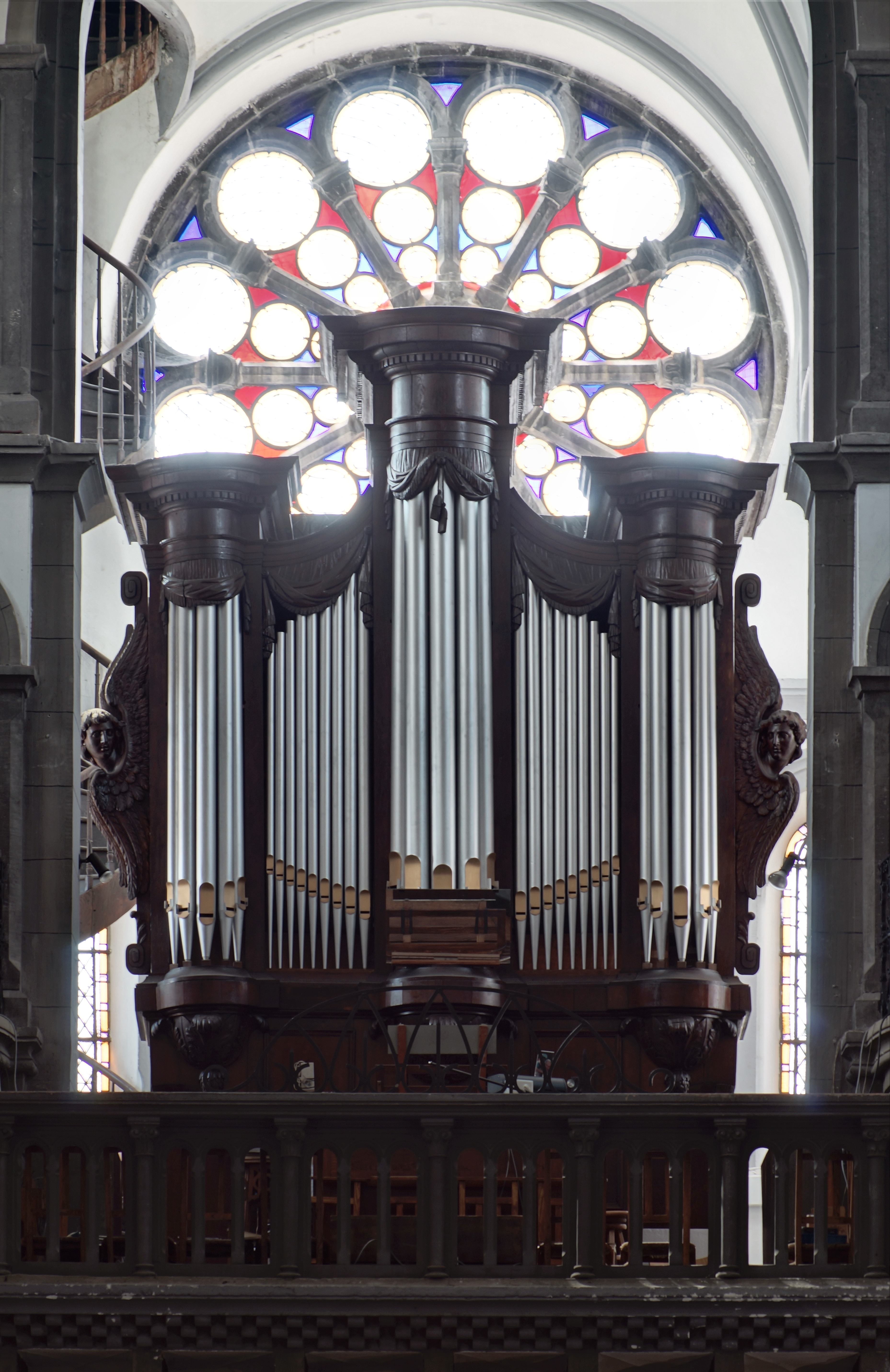 Jumet - Church of the Immaculate Conception - Organ (build 1801 - 1850)